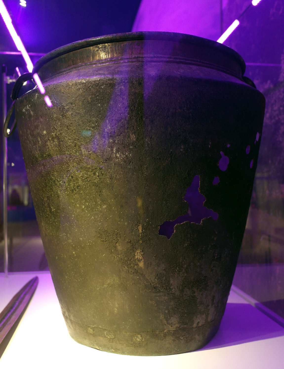 So-called Situla of Baarlo, a bronze pot or situla discovered around 1930 in Baarlo, Limburg, the Netherlands. The Iron Age object from 800-500 BC is now in the collection of the Rijksmuseum van Oudheden in Leiden. This photo was taken during the temporary exhibition Topstukken van het Rijksmuseum van Oudheden in the Limburgs Museum in Venlo, while the museum in Leiden was closed for renovations.